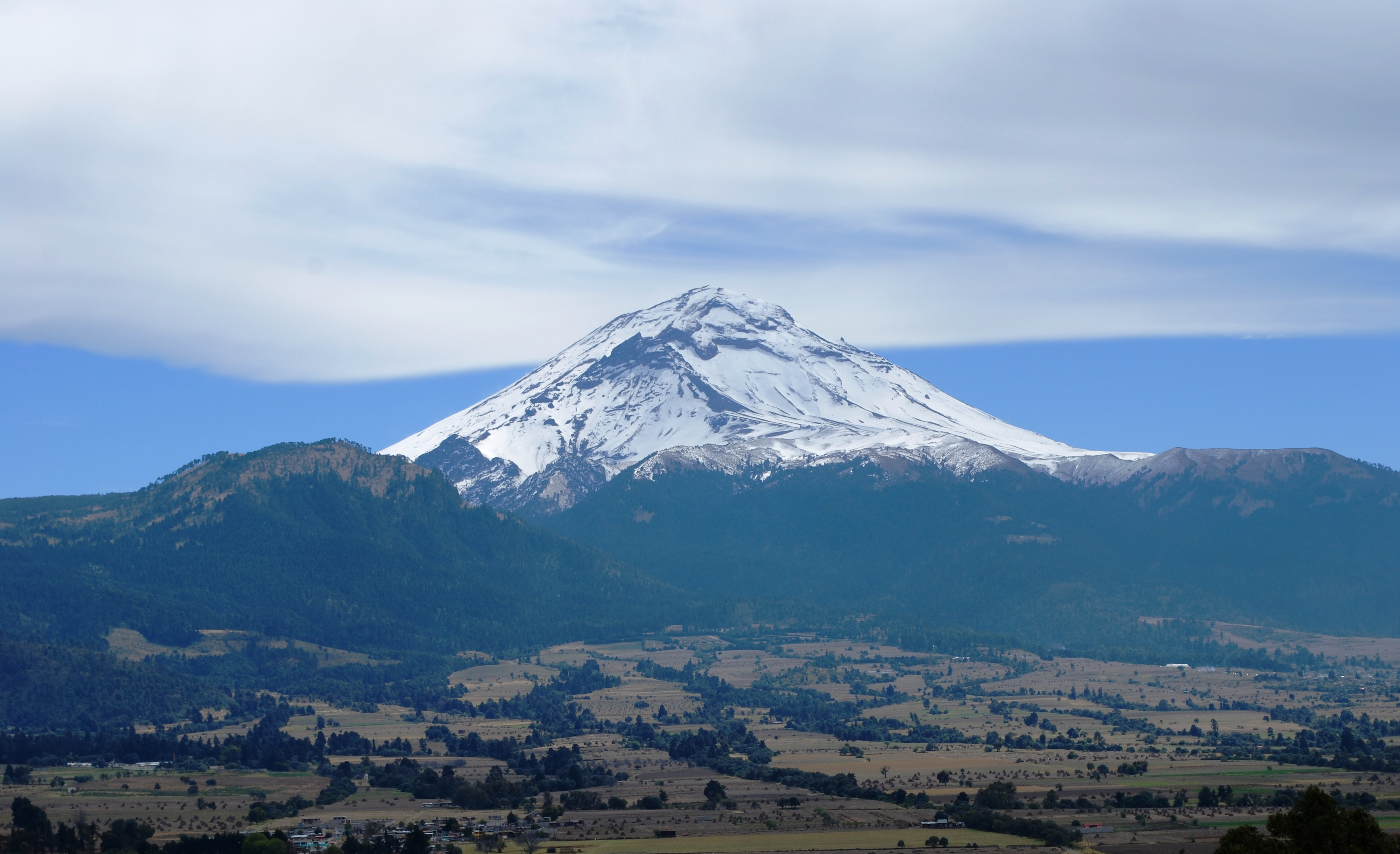 view of the Popocatepetl volcano from Amecameca, Mexico State